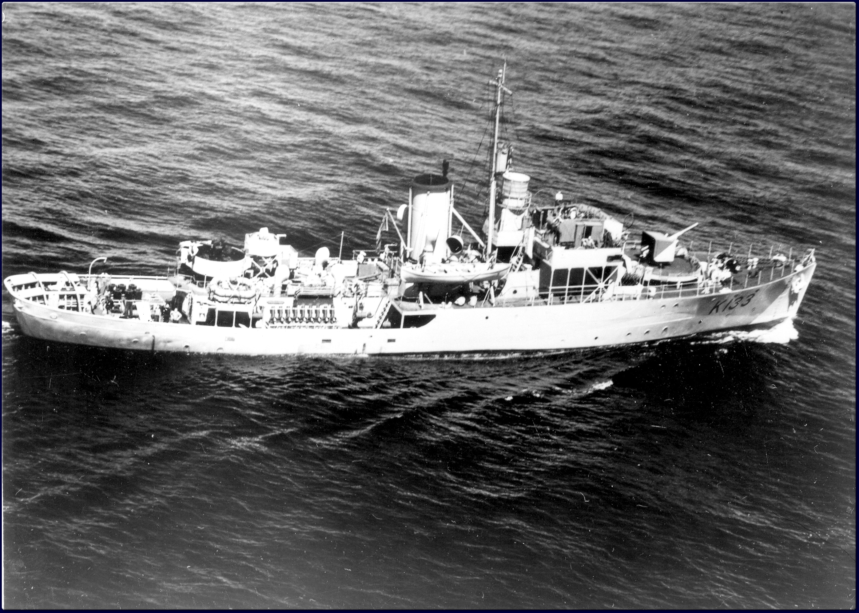 HMCS Quesnel (K 133) off Vancouver Island.